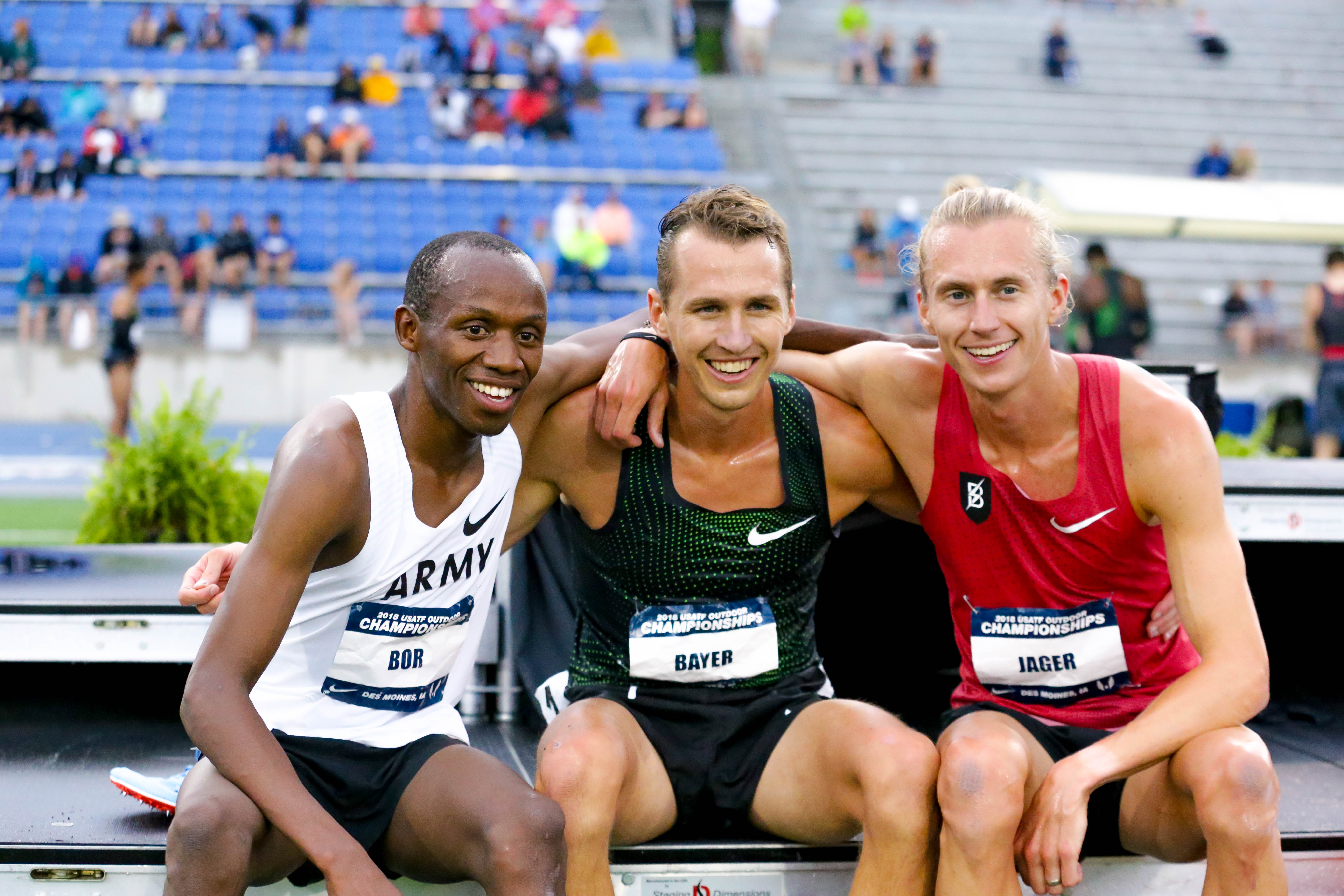 Staff Sgt. Hillary Bor came in 2nd place and Spc. Haron Lagat came in 6th Photo by Brittany Nelson